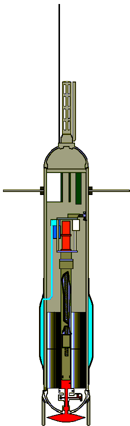 Cutaway diagram of an Argo float. The height of the float is about 2 m. The antenna and sensors are mounted at the top of the buoy.